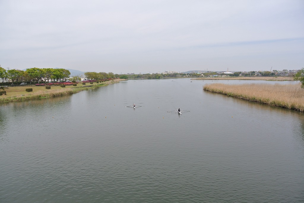 Lake Shimoezu (Shimoezu-ko) seen from Shimoezu Bridge